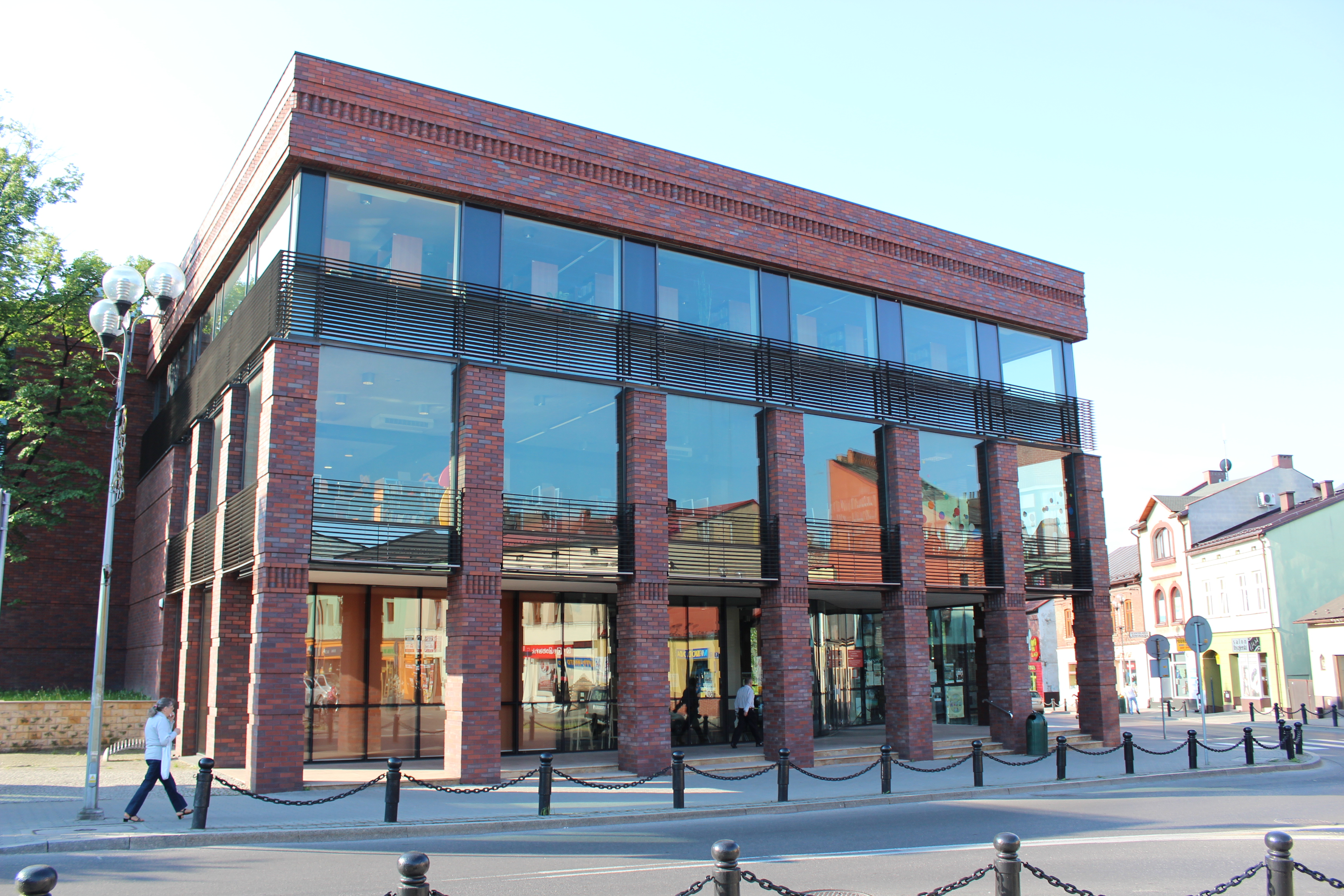 The main building of the City Public Library in Jaworzno